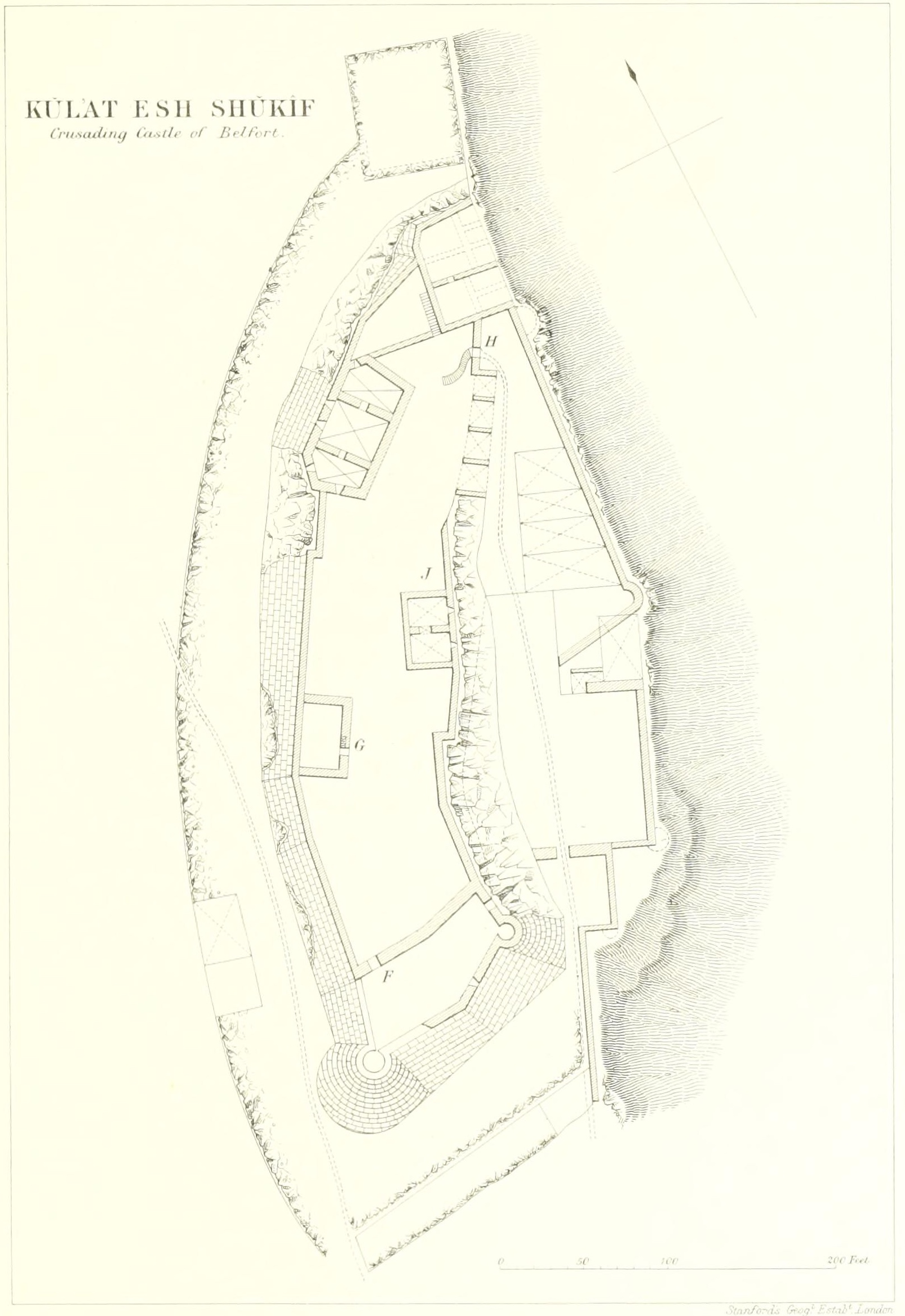 Kulat Esh Shukif from the 1871-77 Palestine Exploration Fund Survey of Palestine